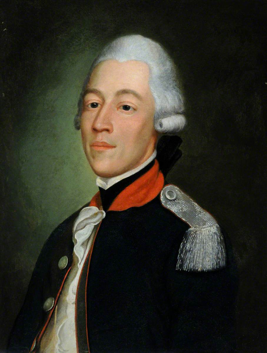 French School; Philippe Charles-Felix Macquart (1744-1781), Baron de Rullecourt; Jersey Heritage